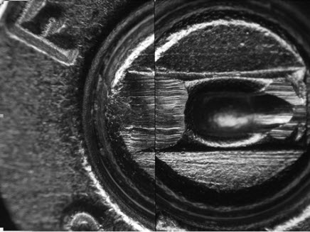 Two test-fired cartridge casing being compared with a comparison microscope. Matching striations between the two can be seen.